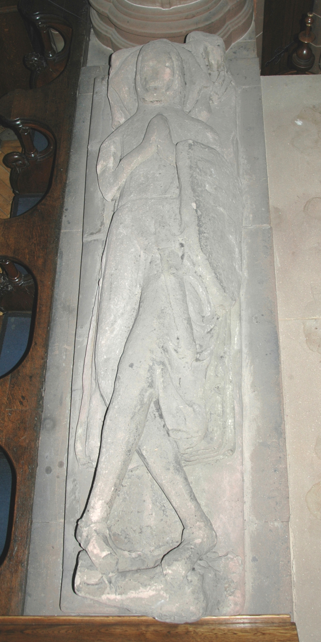 Church of England parish church of St Martin, Birmingham: tombe effigy of a cross-legged knight, circa 1325, believed to be Sir William de Bermingham.